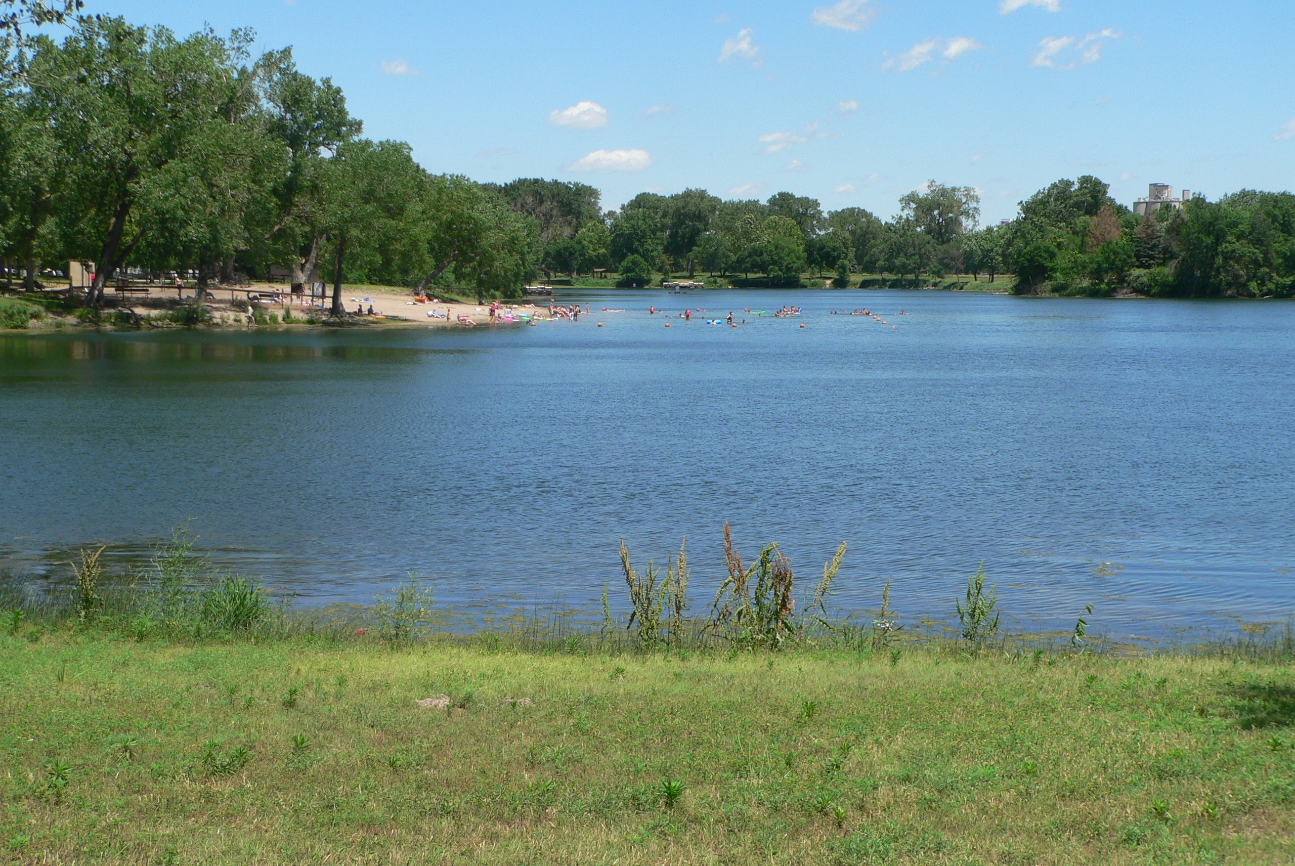 Lake 1 at Louisville State Recreation Area, located near Louisville, Nebraska. Camera is facing generally eastward.